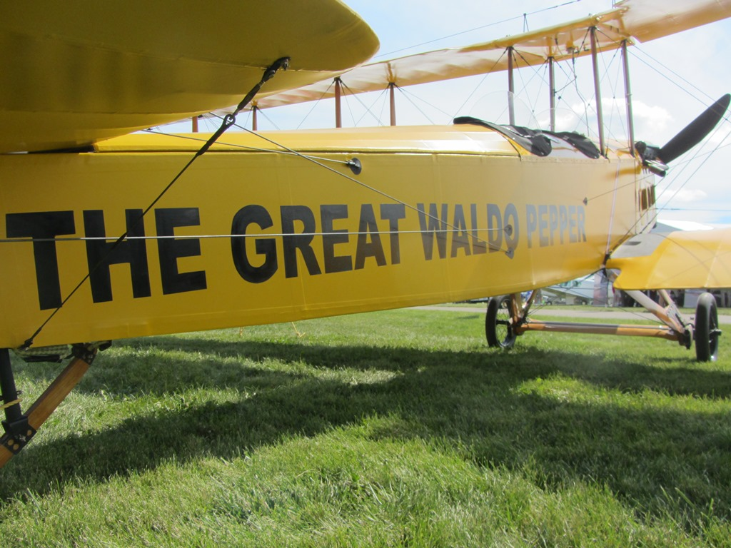 Klessig Standard J-1